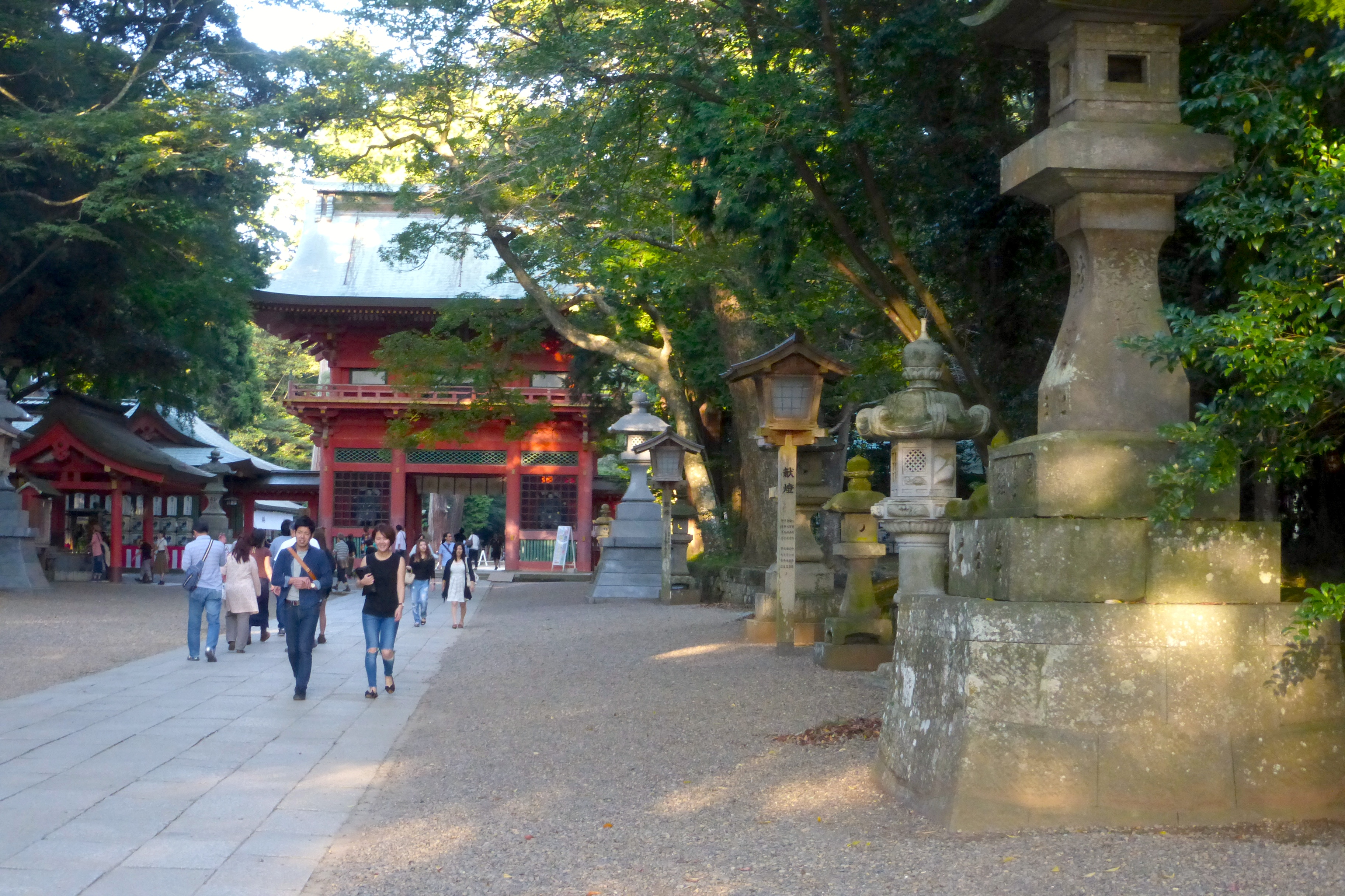 鹿島神宮の楼門と灯籠 (Kashima shrine's Romon gate and stone lanterns)